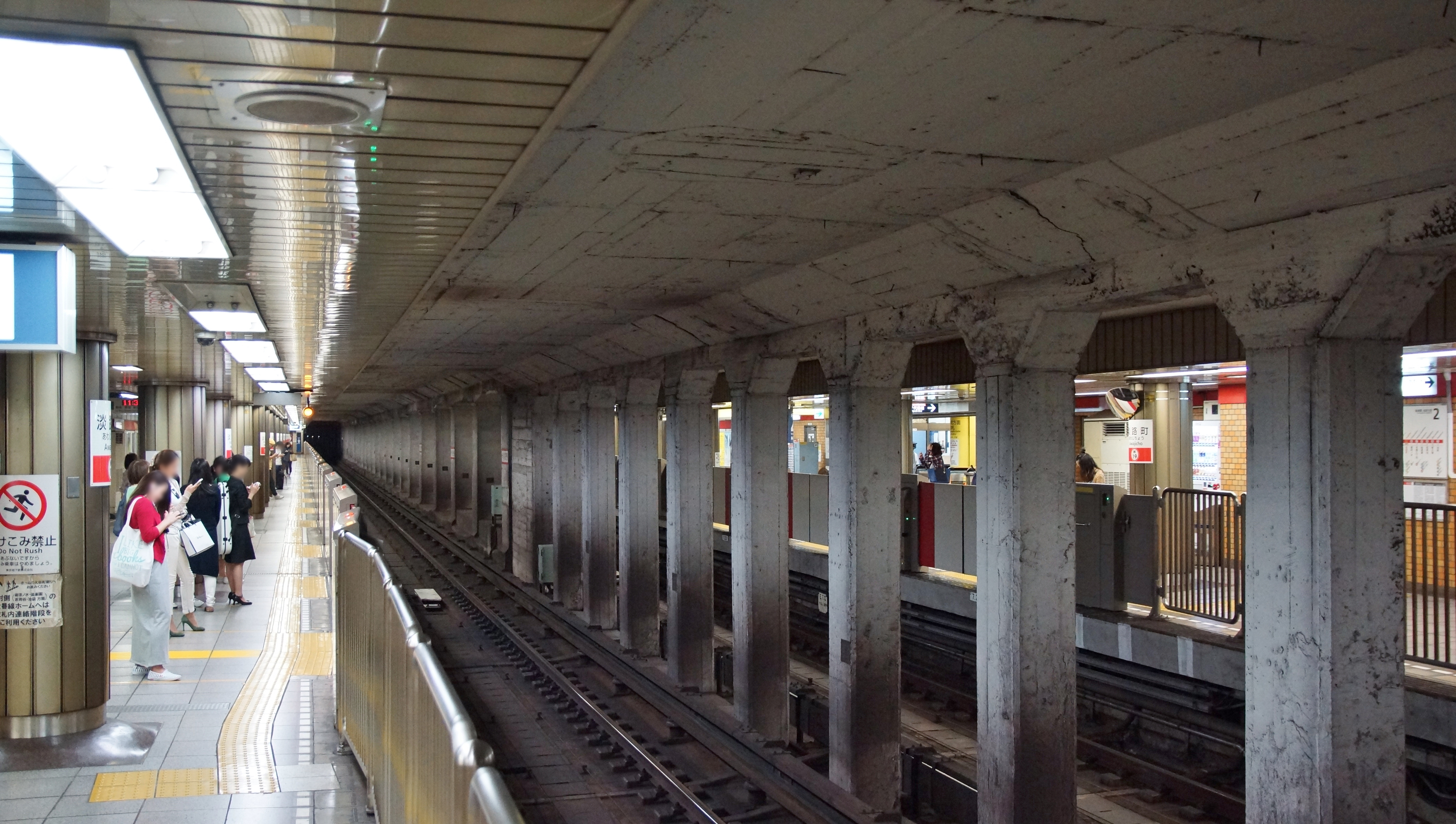 The platforms at Awajicho Station on the Tokyo Metro Marunouchi Line in Tokyo, with platform 1 (for Ogikubo) on the left